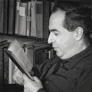 Profile photograph of Eli Siegel, founder of Aesthetic Realism, 1947 Photograph taken at 67 Jane Street, New York, NY